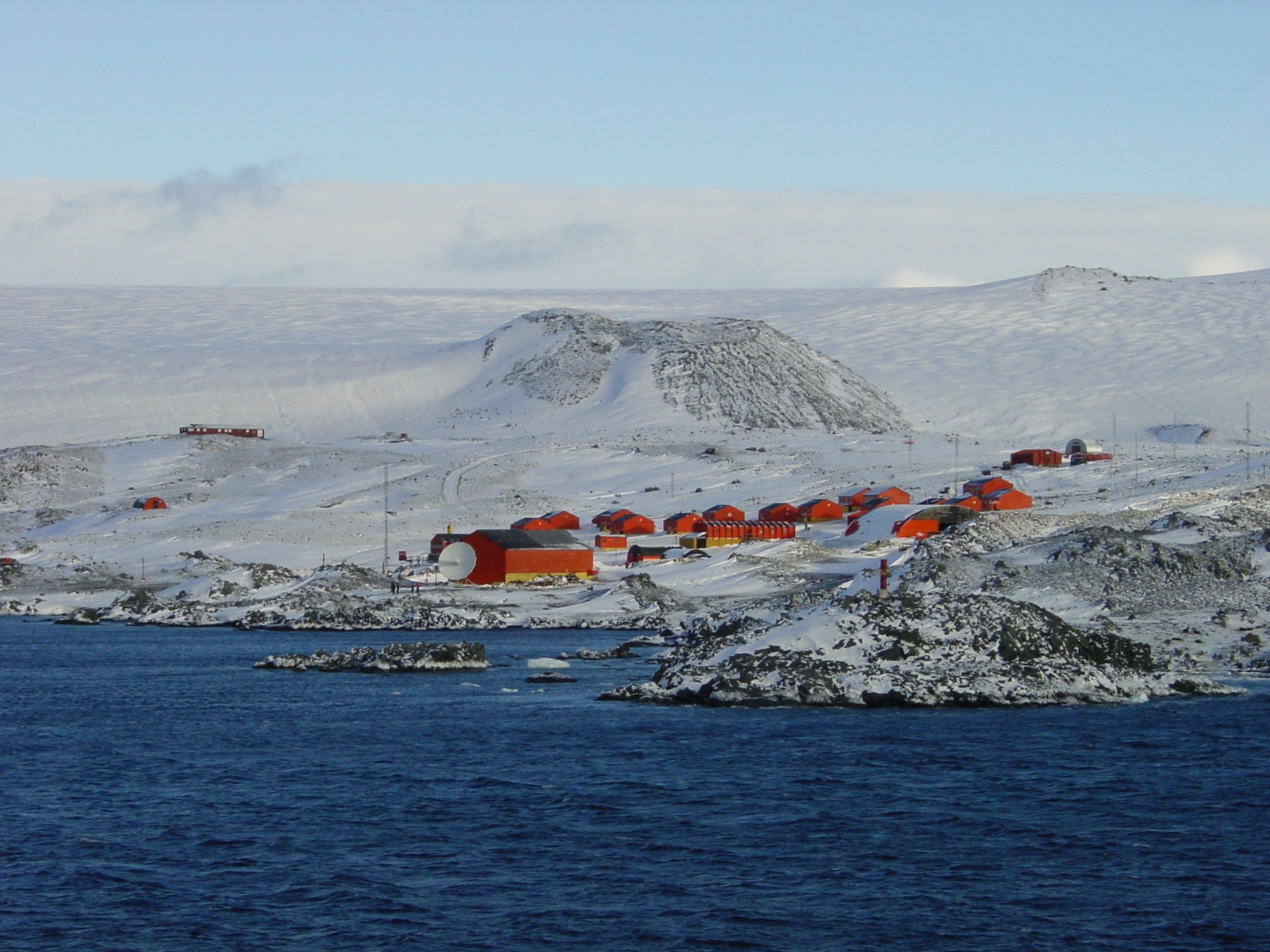 A base camp for observing penguins and marine mammals as well as other scientific observations. Antarctic Peninsula. 2001-2002 austral summer. Photographer: Dr. David Demer, NOAA/NMFS/SWFSC/AMLR.